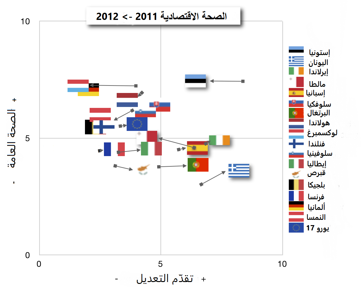 Overall economic health and adjustment progress of Eurozone countries 2011-2012 according to "Euro Plus Monitor 2012" ( ; table 27-28). Indicators are measured from 0 (bad) to 10 (excellent) performance.